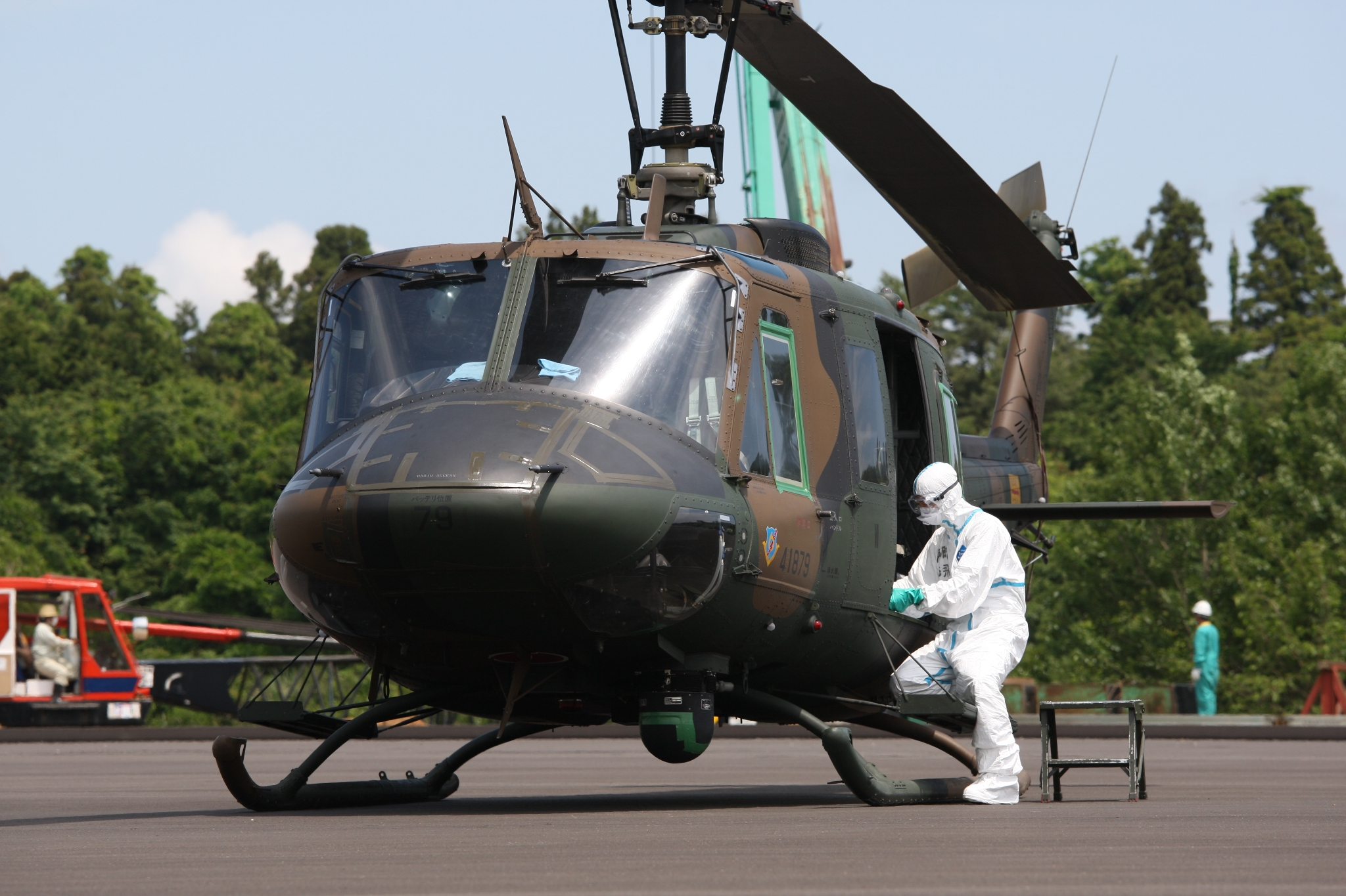 Title 23.6.8 ＥＡ：福島合第１原発１０キロ圏内を飛行するヘリコプターは隅々まで目張りする（６師団長視察のためＪビレッジに飛来）.JPG Album 東日本大震災における災害派遣活動 スクリーニング作業